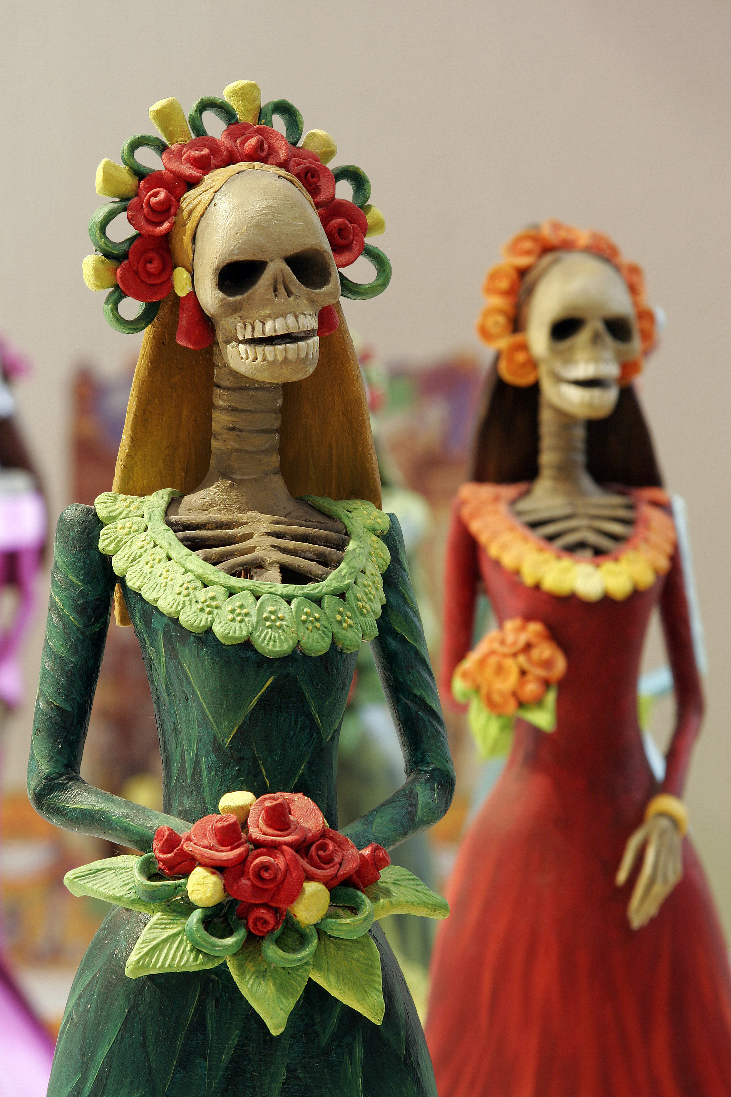 La Catarina – In Mexican folk culture, the Catarina, popularized by José Guadalupe Posada, is the skeleton of a high society woman and one of the most popular figures of the Day of the Dead celebrations in Mexico. Height : about 15 inches - 38 cm. Picture taken at the Museo de la Ciudad, Leon, Guanajuato, Mexico... a public place.